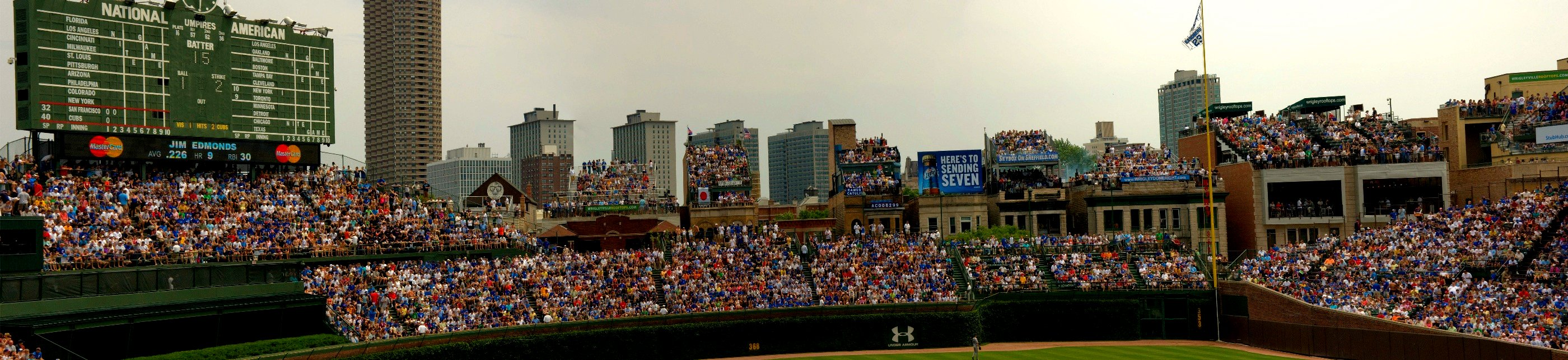 Panoramic view of Wrigley, taken on 2008-07-12 by Bryce Edwards